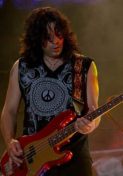 Pavel from Scorpions in Kavarna 2009